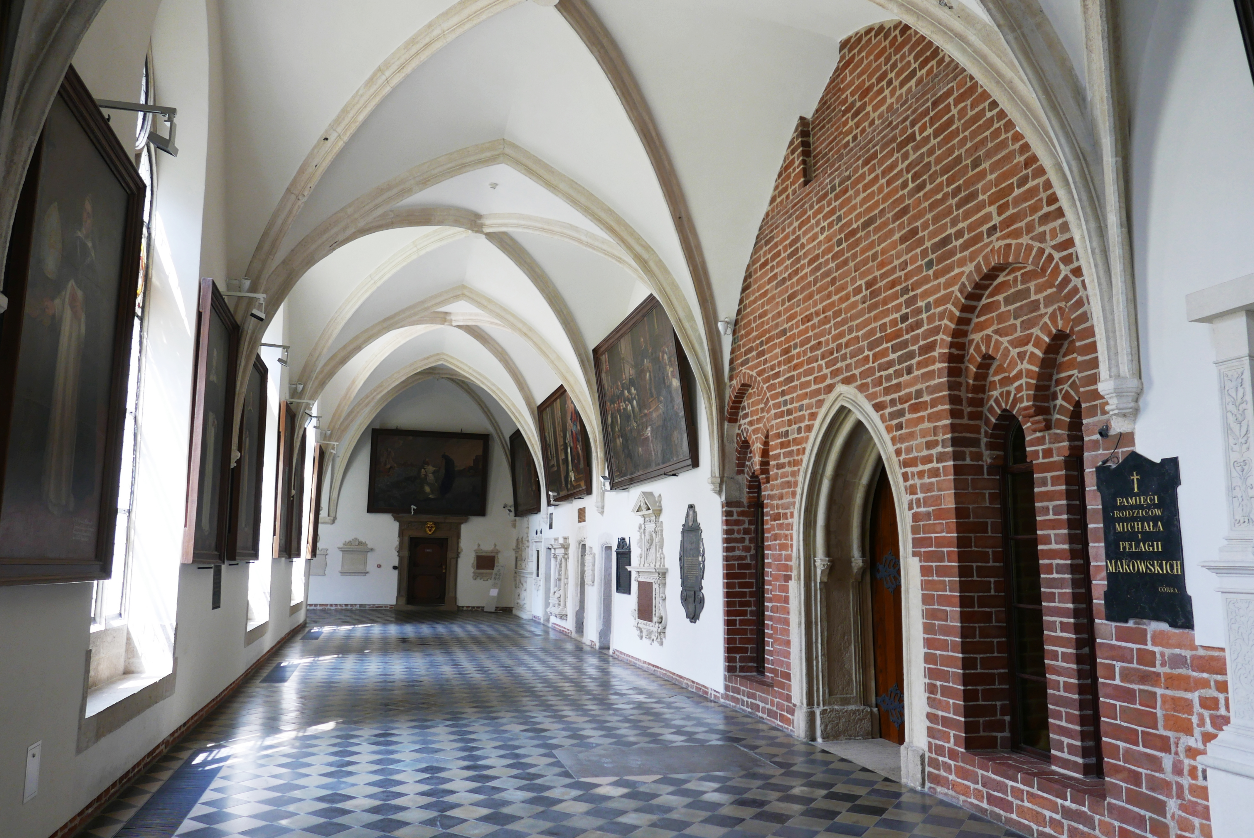 Cloisters of the Trinity Church in Kraków